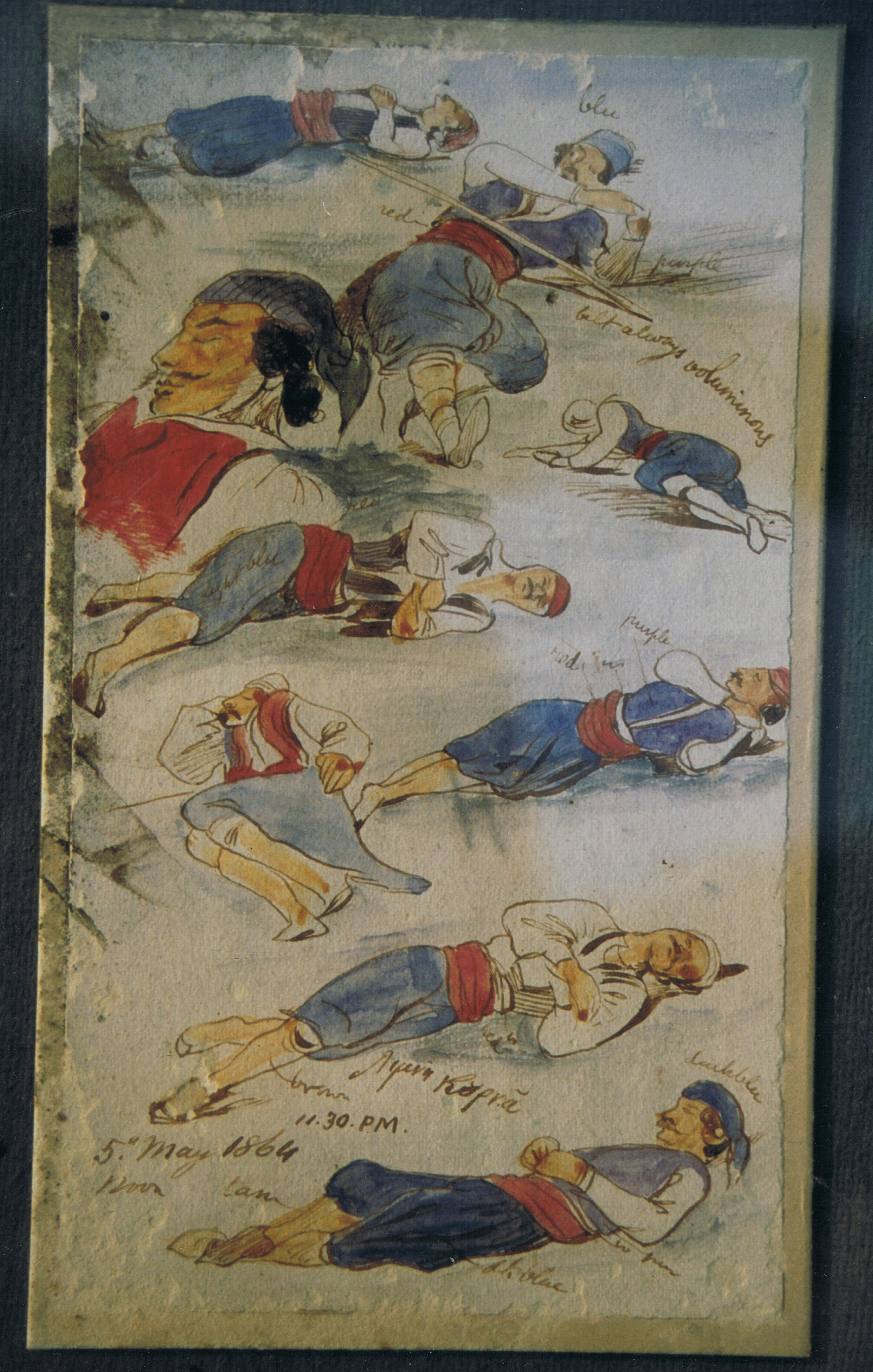 Photo (by me, R. de Salis, Rodolph (talk) 00:17, 14 November 2015 (UTC)) of Edward Lear sketches dated 15 May 1864, from Paddy Leigh Fermor collection.